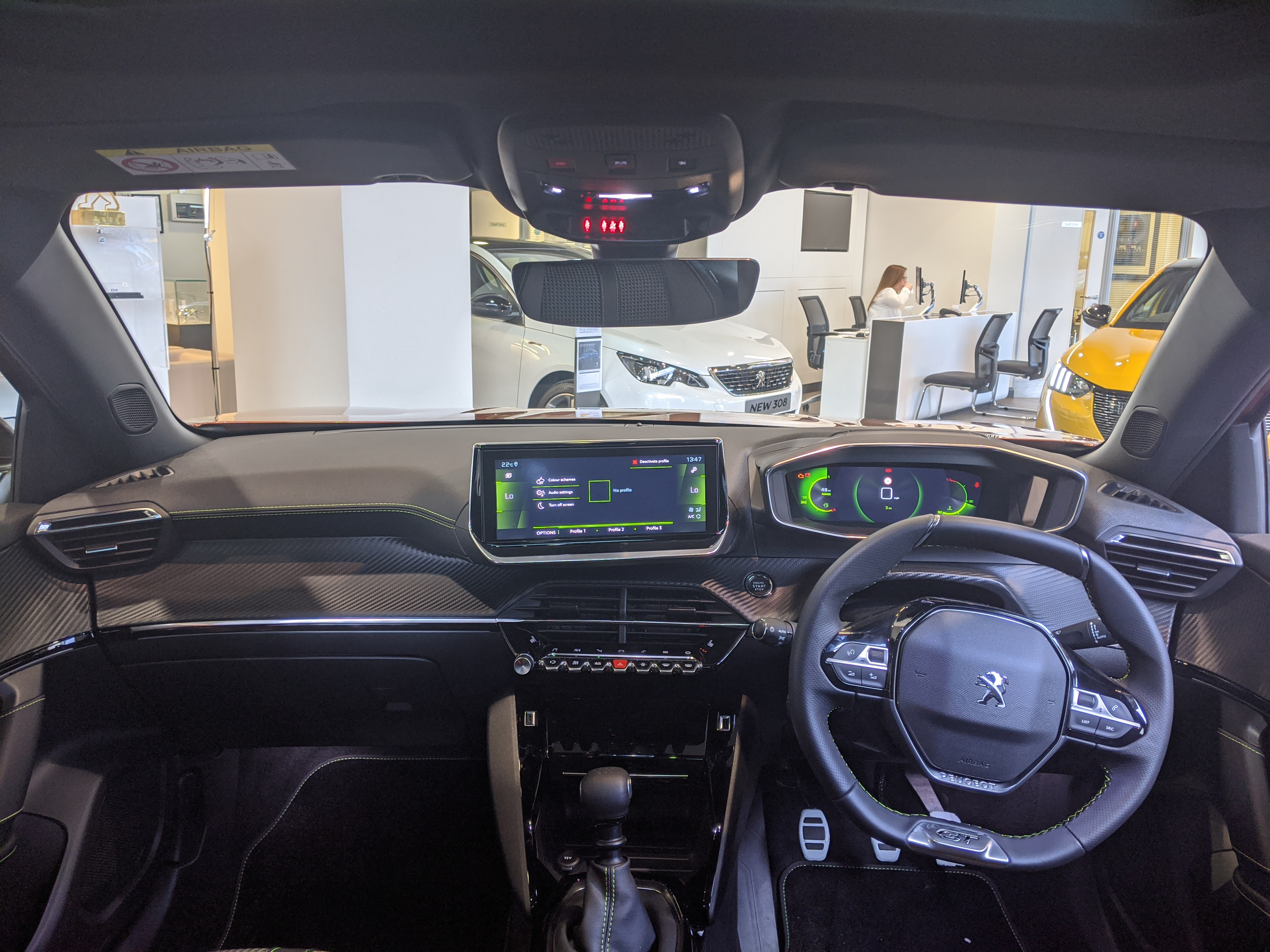 2020 Peugeot 2008 GT-Line Interior Taken in Leamington Spa